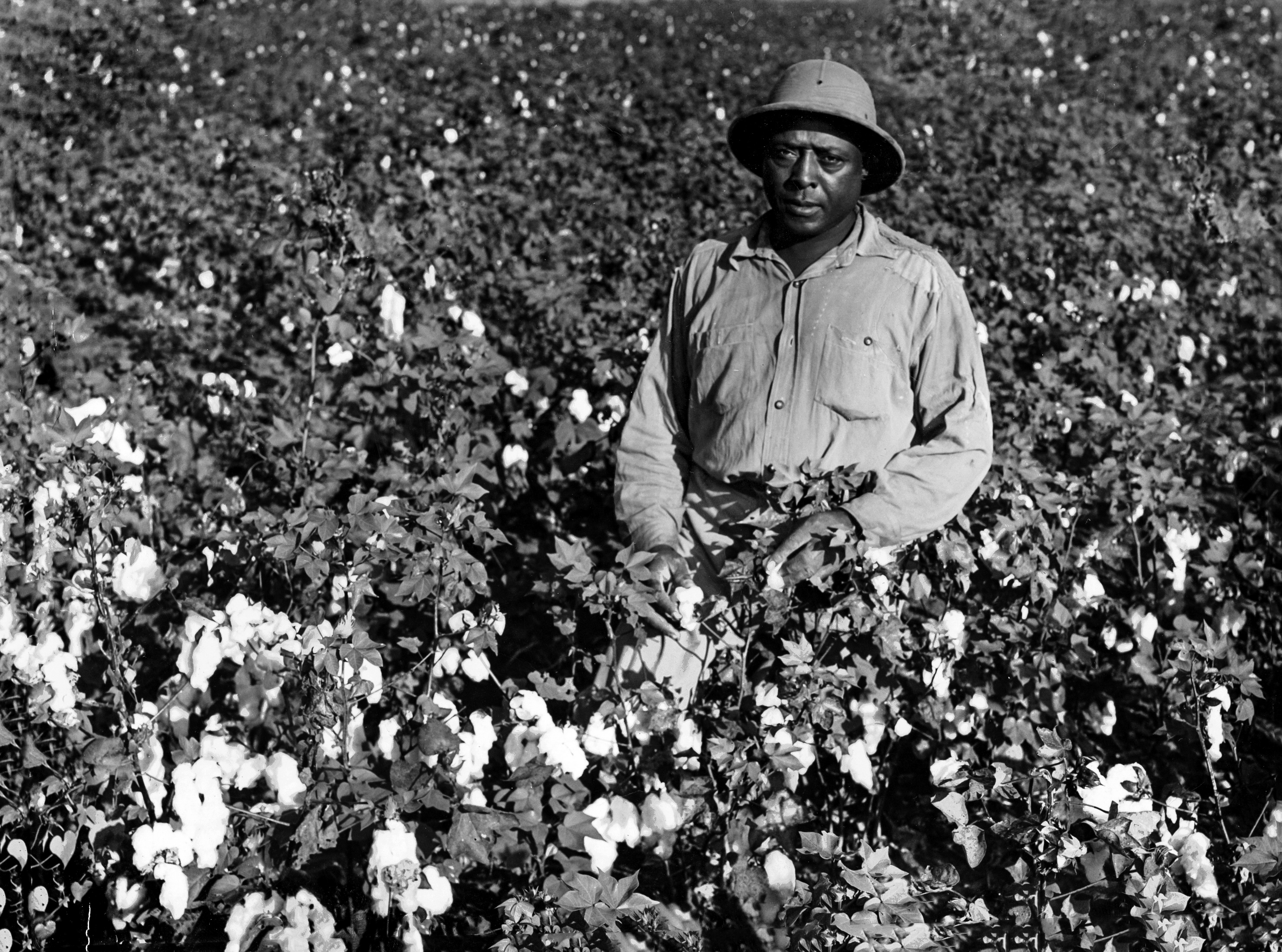 This is a picture of a farm worker in an East Texas cotton field. It was taken in the 1940s.